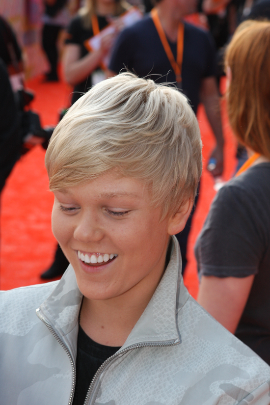 Jack Vidgen on the red carpet at the 2011 Nickelodeon Australian Kids Choice Awards.